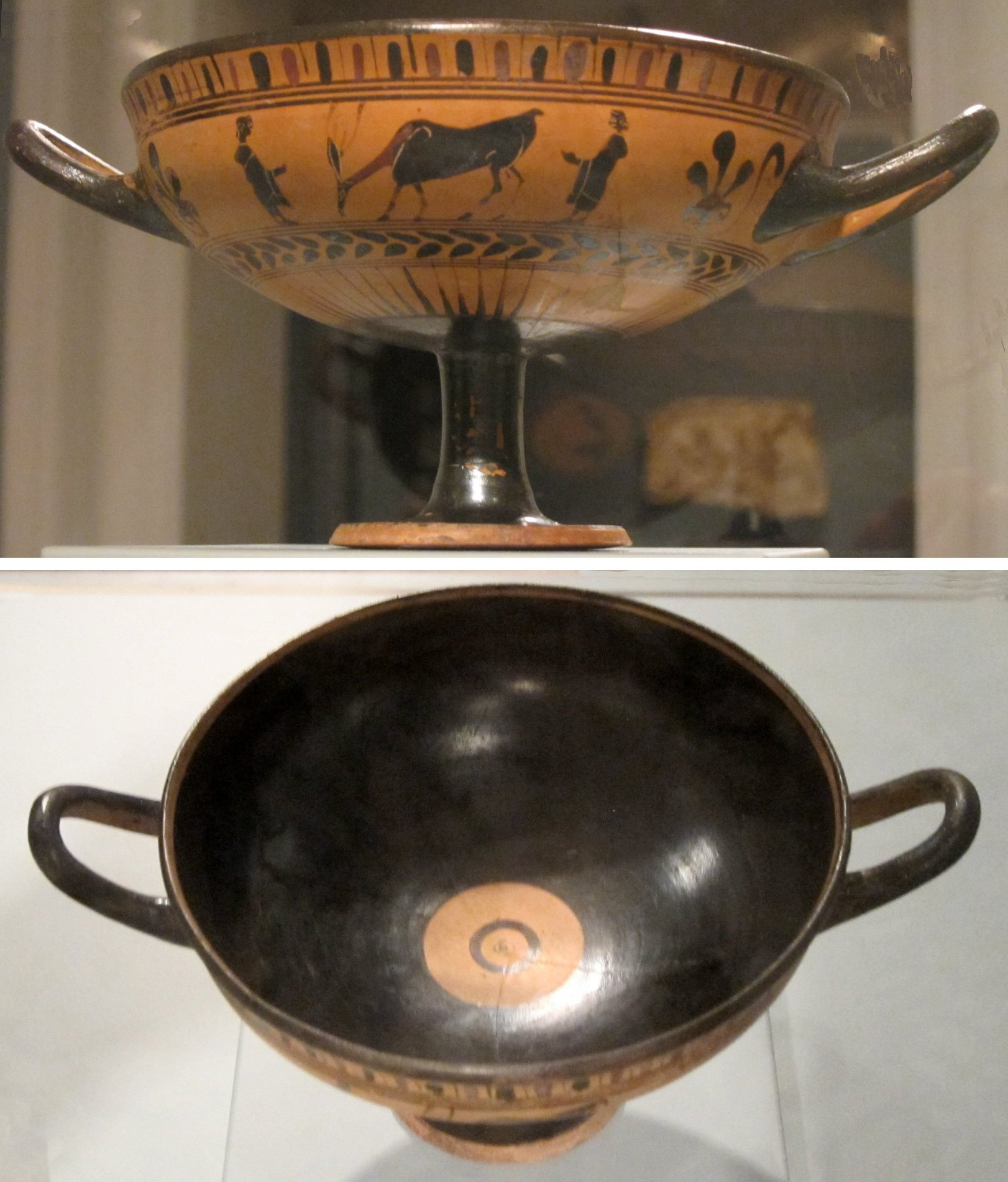 Black-figure terracotta kylix (wine cup), Greece. late 6th century BCE, Honolulu Academy of Arts